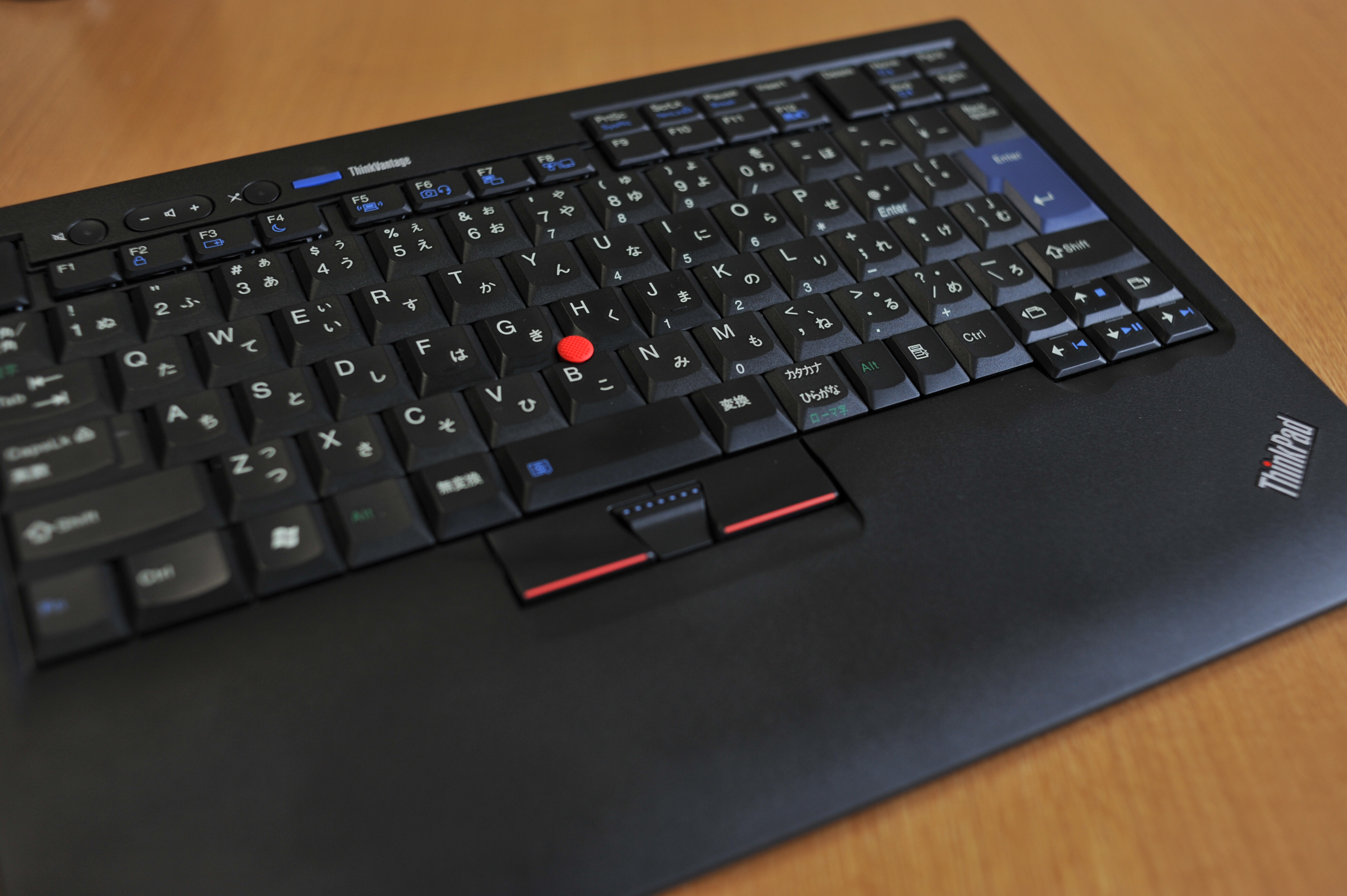 Lenovo ThinkPad USB TrackPoint keyboard